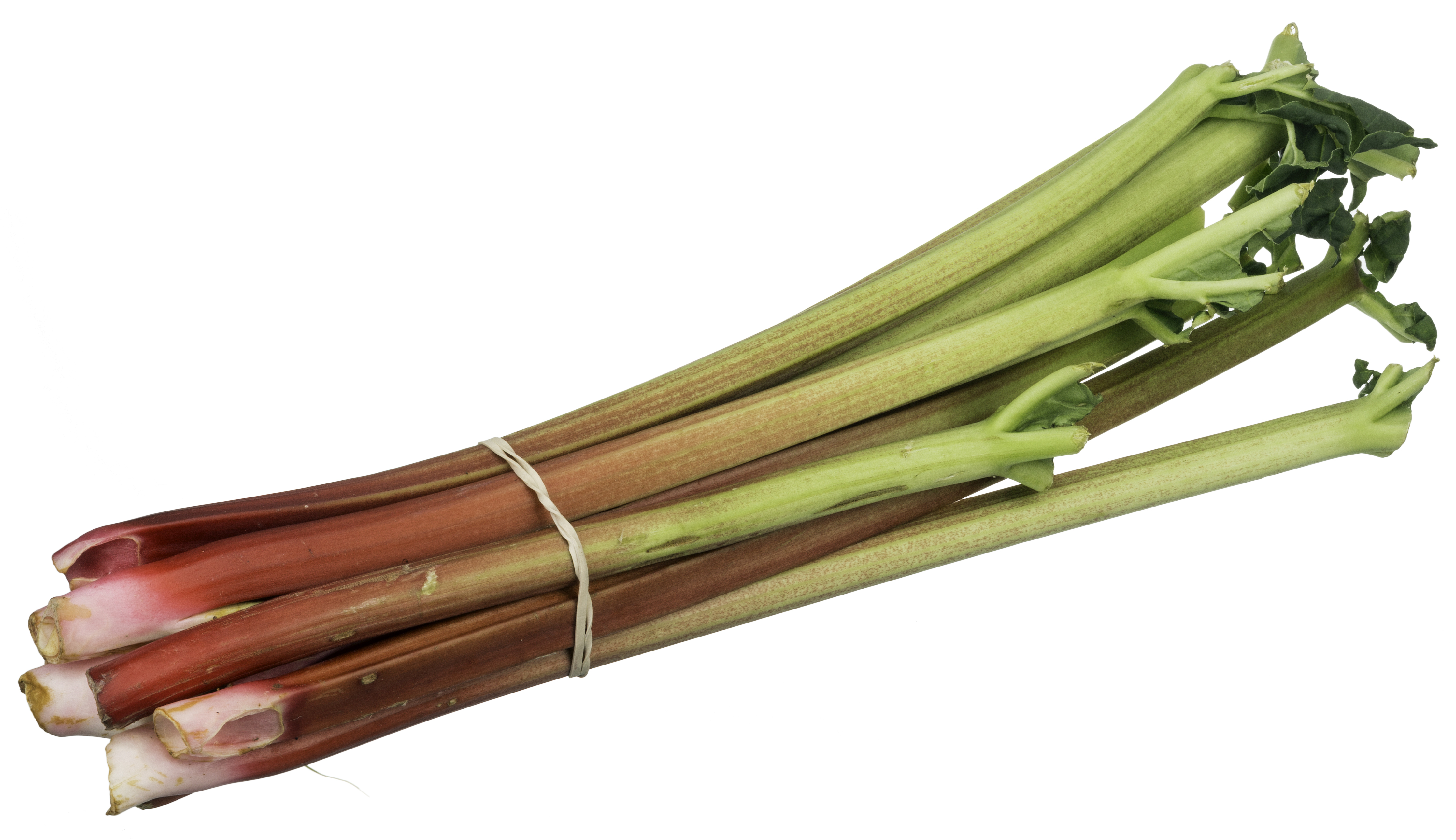 A bundle of rhubarb, from an organic food co-op.